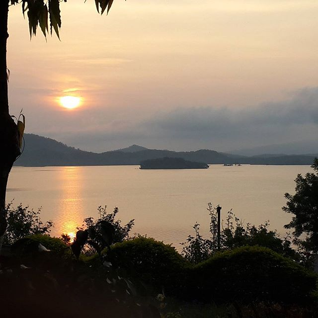 A view of Sunrise from Tawa Resort Tawanagar